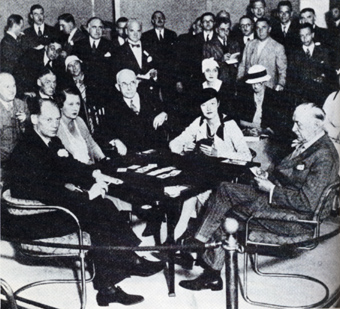 photo of some participants in Beasley-Culbertson match